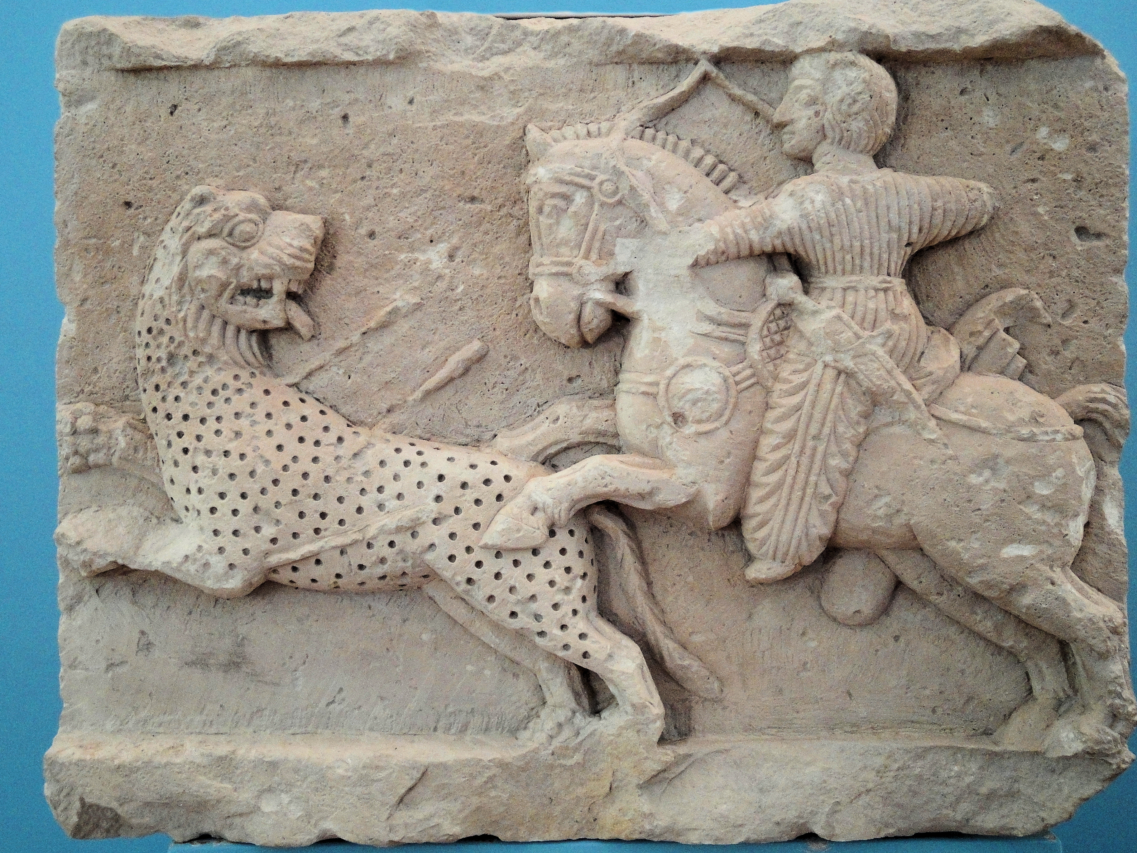 Syria - Palmyra - Museum - 14753655956